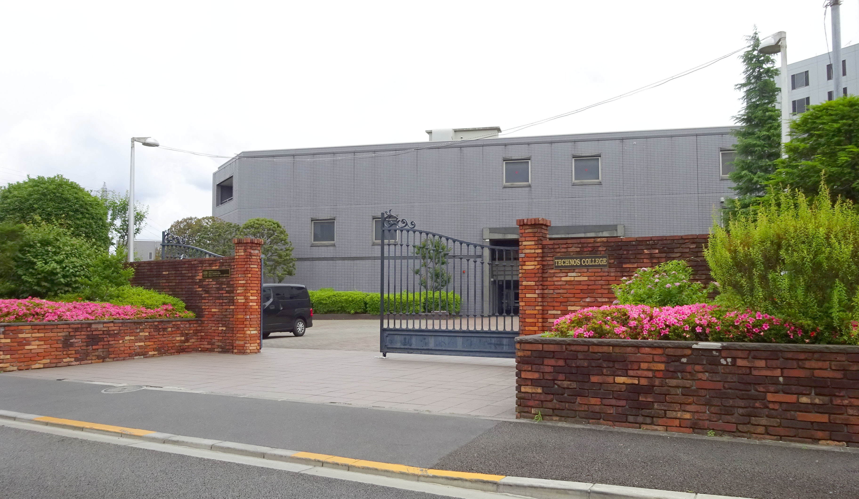 Technos College, Koganei City, Tokyo